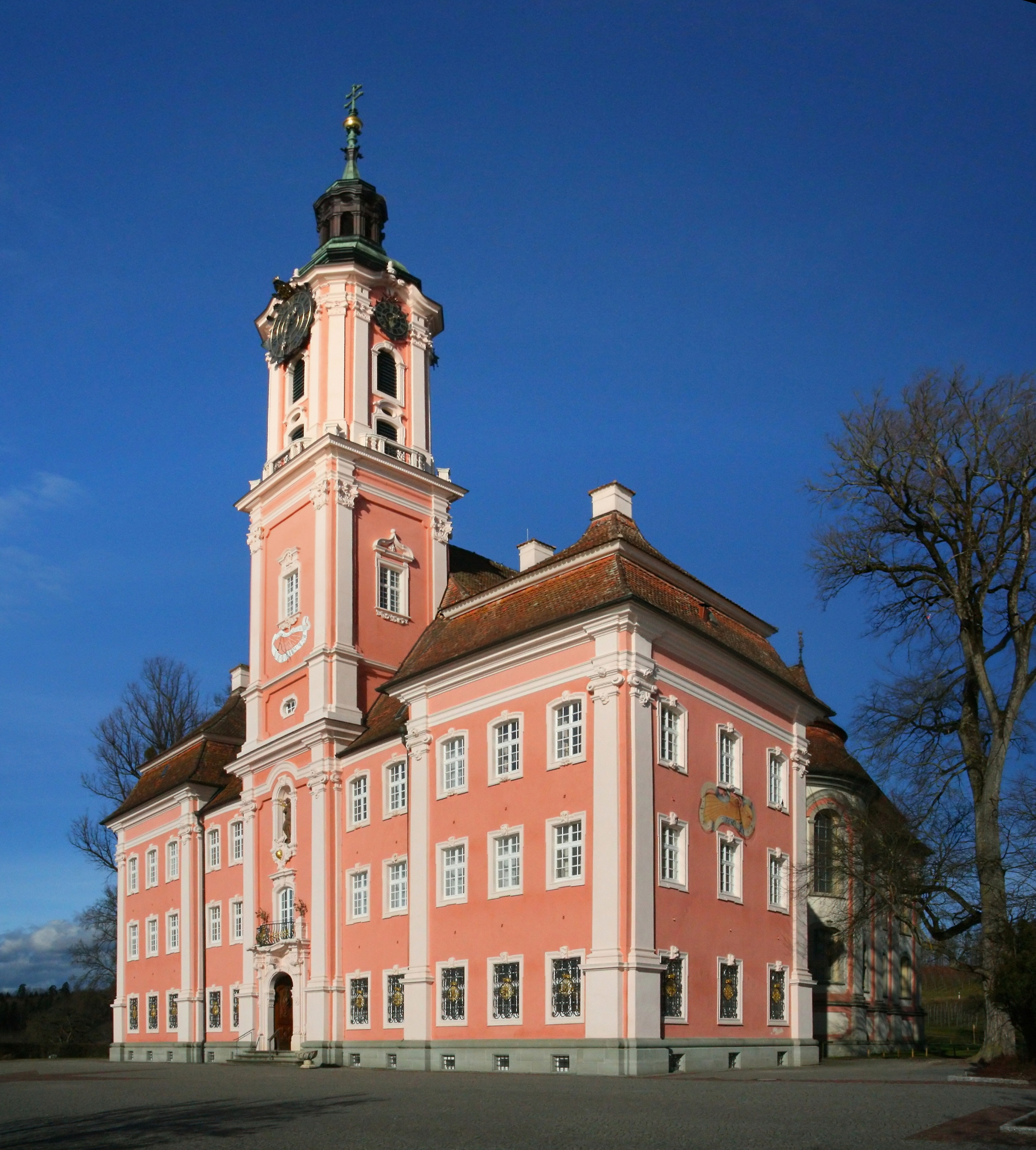 Birnau